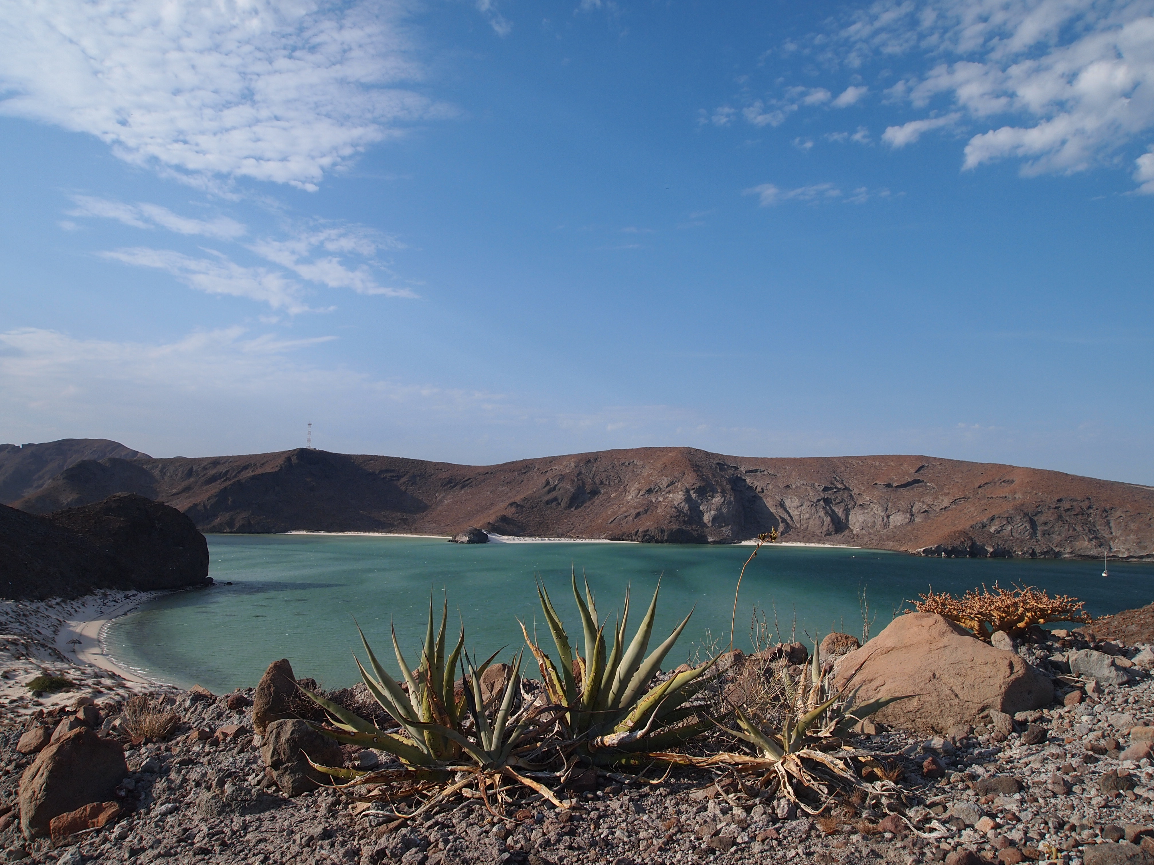 Balandra Beach